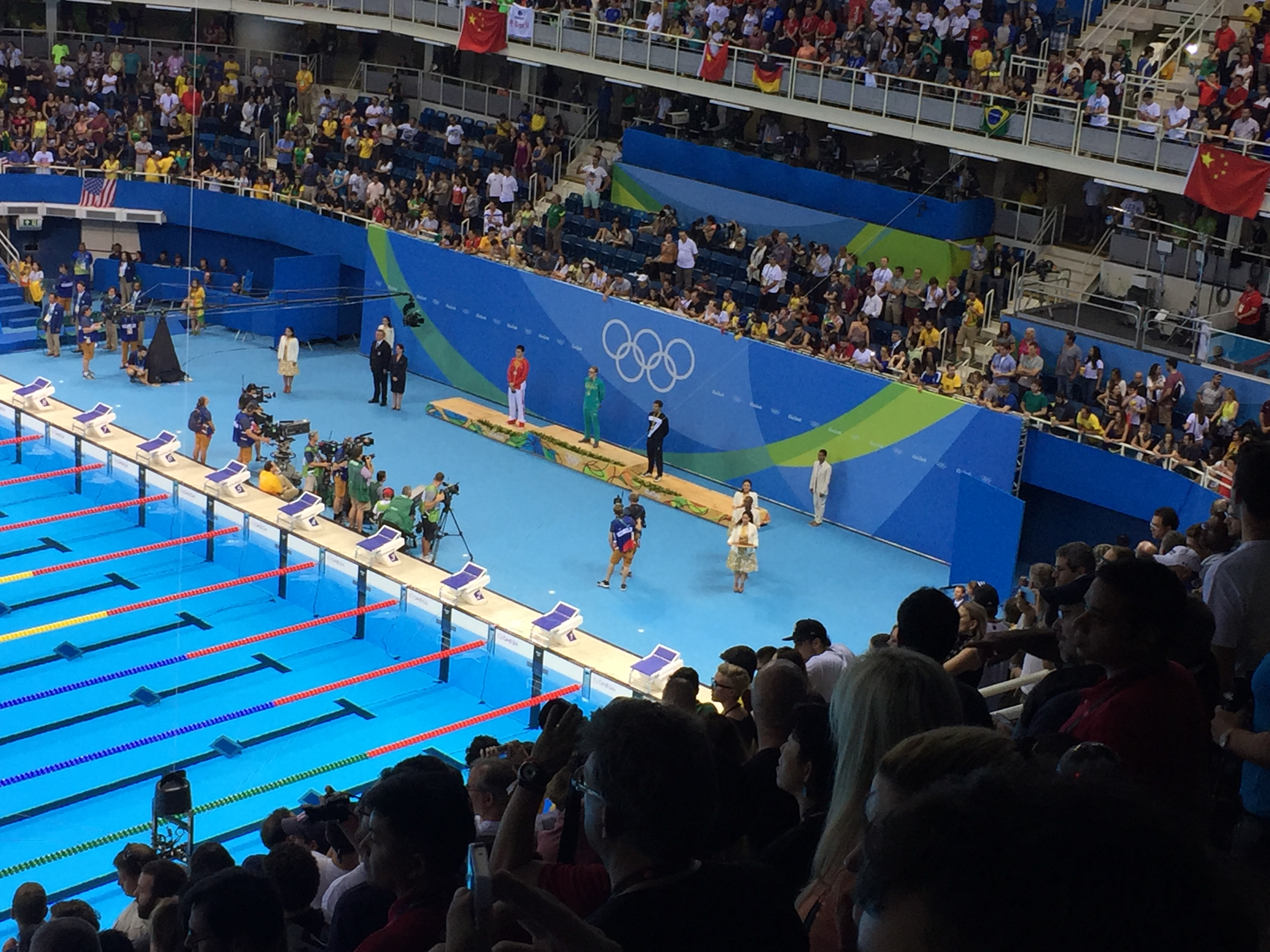 Rio 2016 Olympics - Swimming 6 August evening session